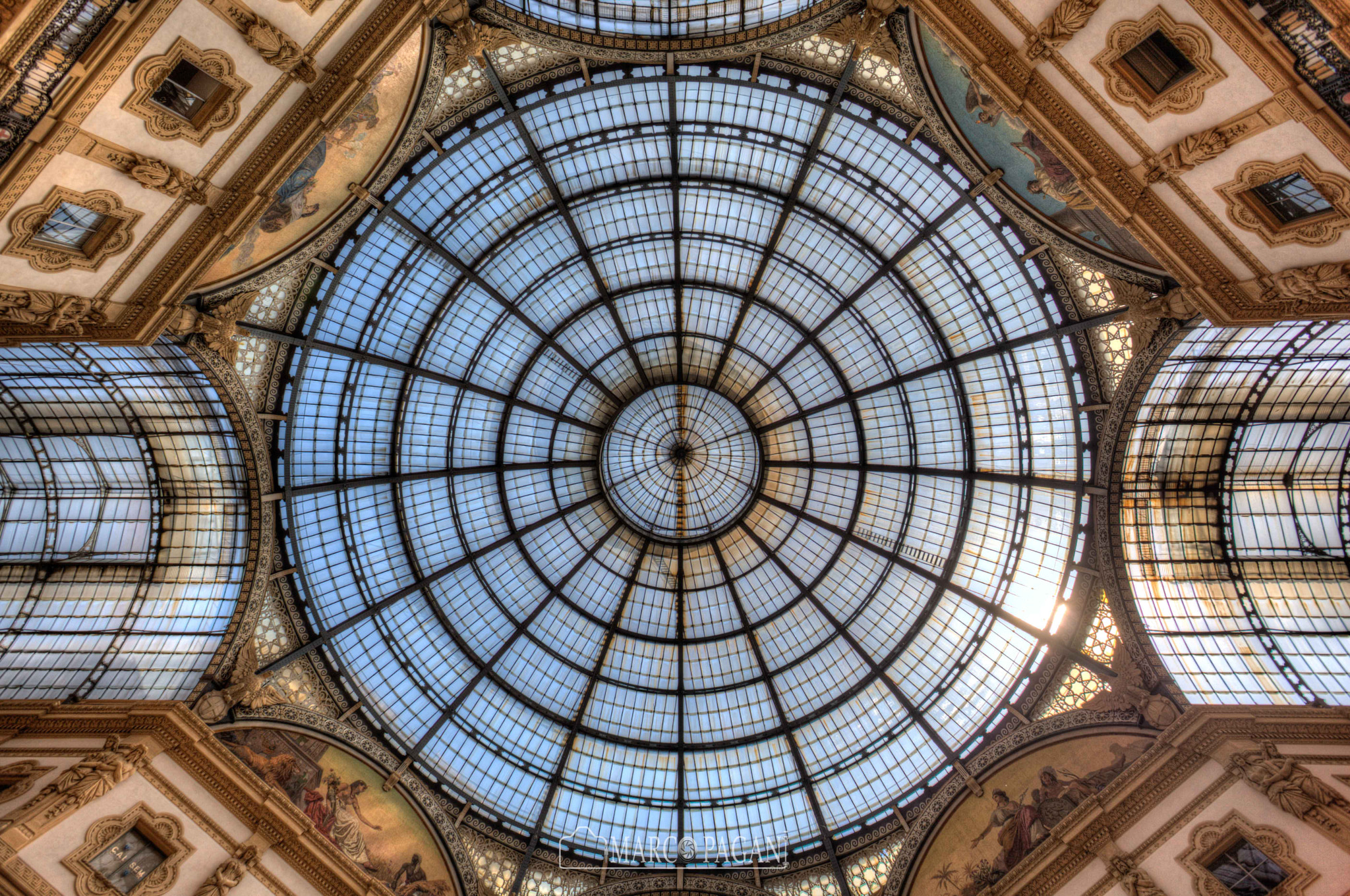 500px provided description: The top of Milano Gallery. Very suggestive site where enjoy with your camera. [#contrast ,#light ,#architecture ,#building ,#indoor ,#colorful ,#daylight ,#historic ,#simmetry ,#cristal ,#Italy ,#Milan]